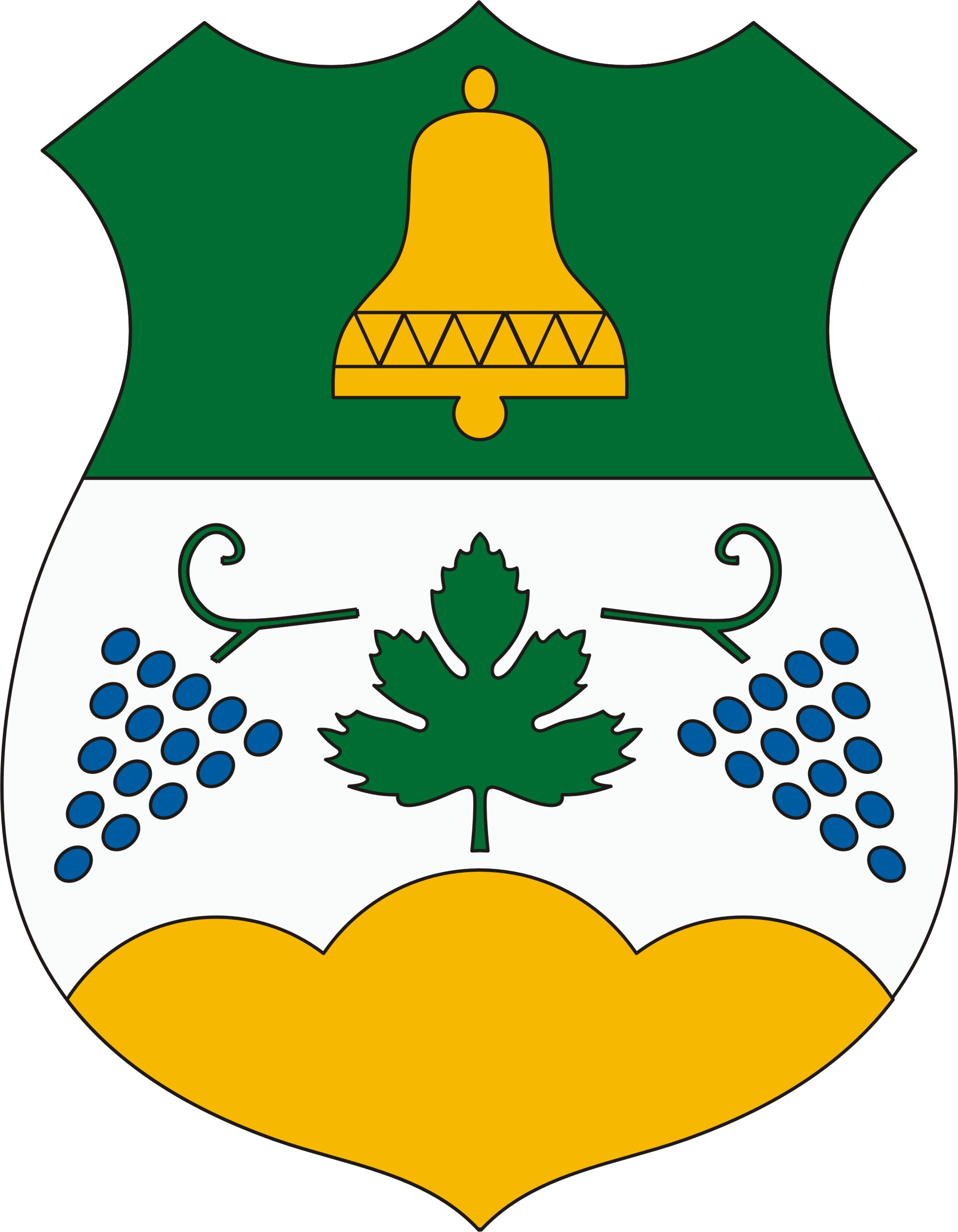 Coat of arms of Madaras, Hungary Coat of arms of Csengőd, Hungary